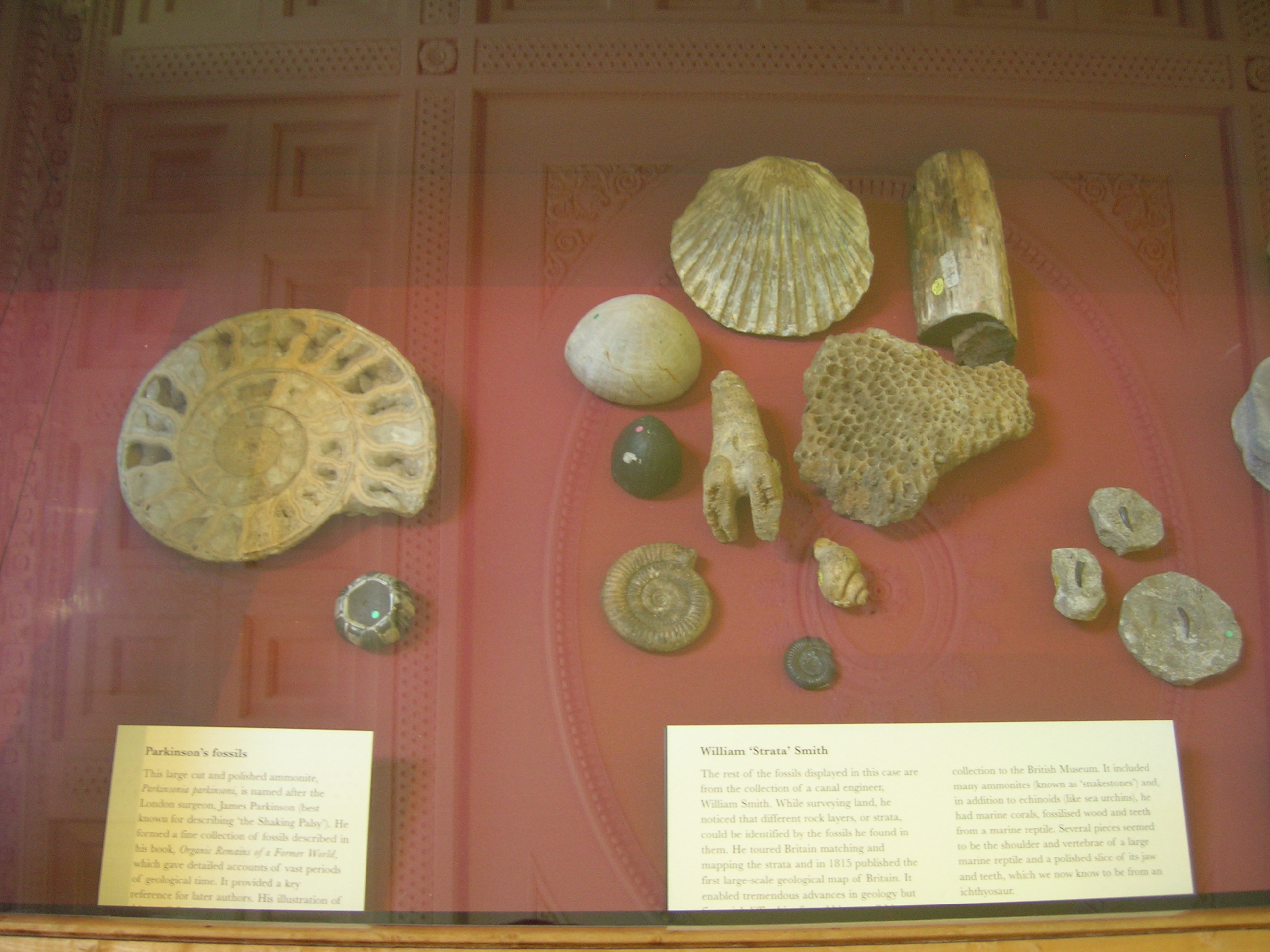 On the right: William ?Strata' Smith (geologist) The rest of the fossils displayed in this case are from the collection of a canal engineer, William Smith. While surveying land, he noticed that different rock layers, or strata, could be identified by the fossils he found in them. He toured Britain matching and mapping the strata and in 1815 published the first large-scale geological map of Britain. It enabled tremendous advances in geology? Collection to the British Museum. It included many ammonites (known as ?snakestones?) in addition to echinoids (like sea urchins); he had marine corals, fossilized wood and teeth from a marine reptile. On the left: Parkinson?s fossils This large cut and polished ammonite, Parkinsonia parkinsoni is named after James Parkinson , (best known for having described ?the Shaking Palsy? ?Parkinson?s Disease?). He formed a fine collection of fossils described in his book Organic Remains of a Former World, which gave detailed accounts of vast periods of geological time. It provided a key reference for later authors.